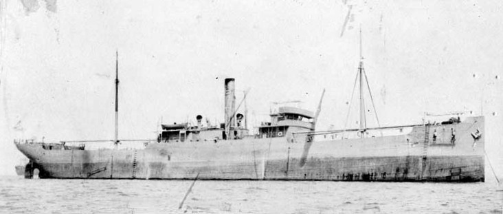 Commercial cargo ship SS Jean, probably at the time of her 1917 inspection by the US Navy 3rd Naval District for possible naval service. She served in the US Navy as USS Jean (ID-1308) from 1918 to 1919.